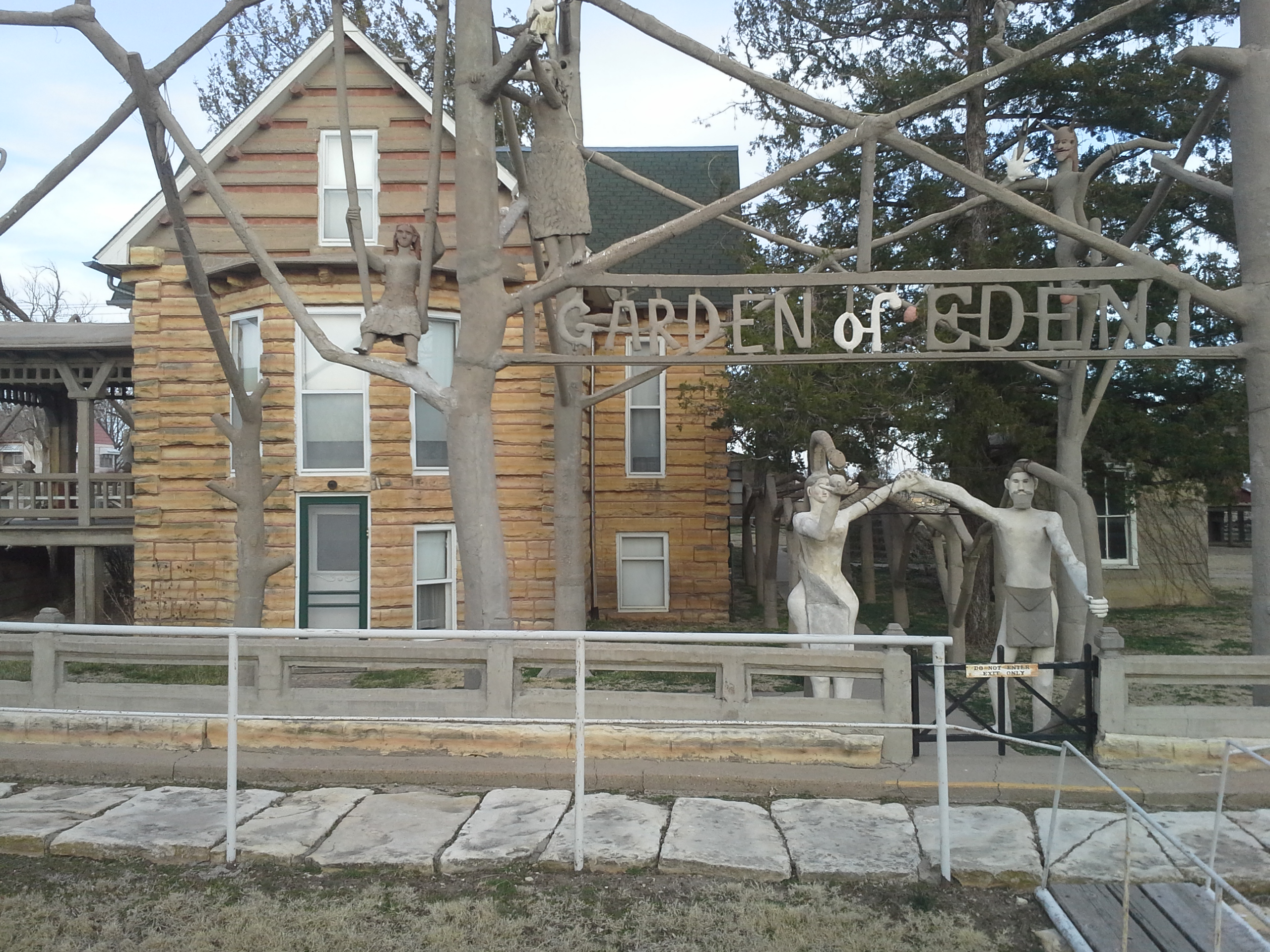 Samuel P. Dinsmoor cabin at Garden of Eden.